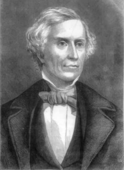 Samuel F. B. Morse - Project Gutenberg eText 15161.jpg From